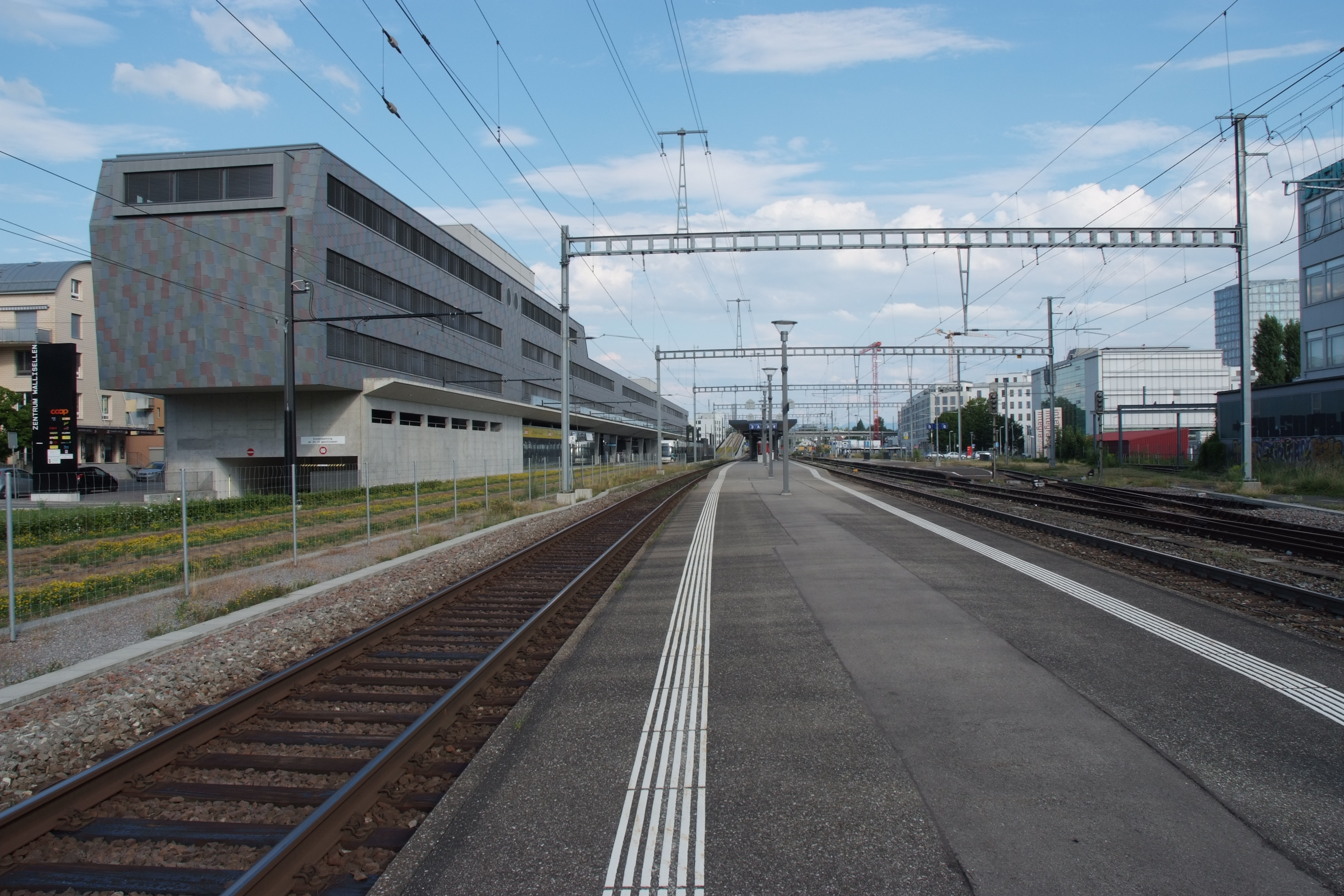 Wallisellen train station